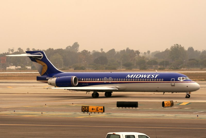 A Boeing 717-200 of Midwest Airlines taxies to the runway at Los Angeles International Airport.